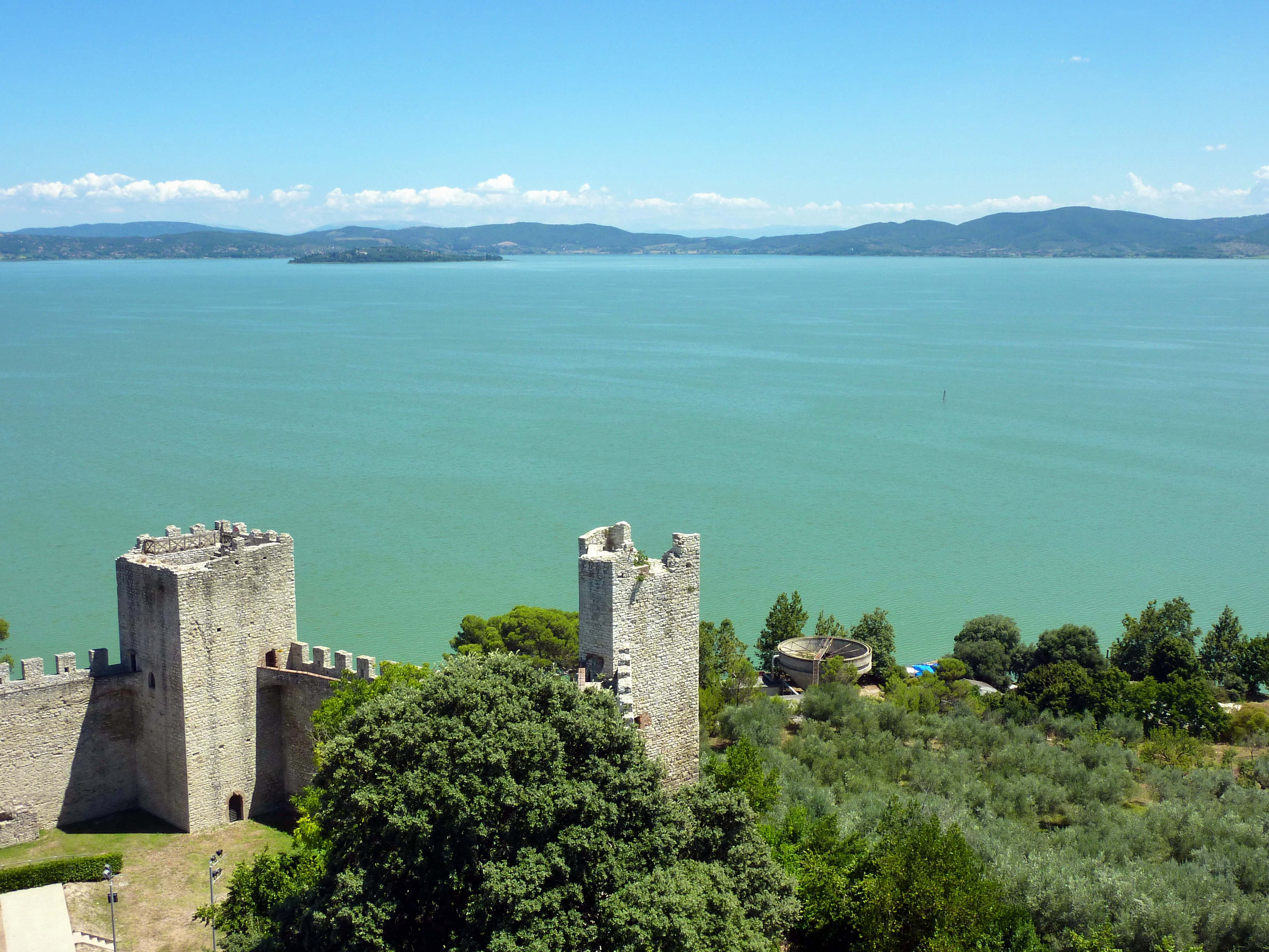 Trasimeno lake seen from the fortress in Castiglione del Lago, Italy.